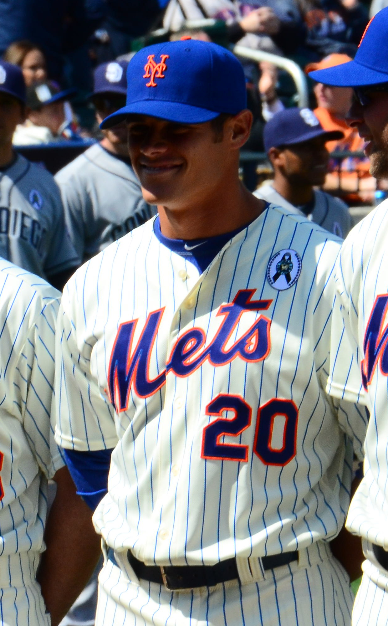 Anthony Recker